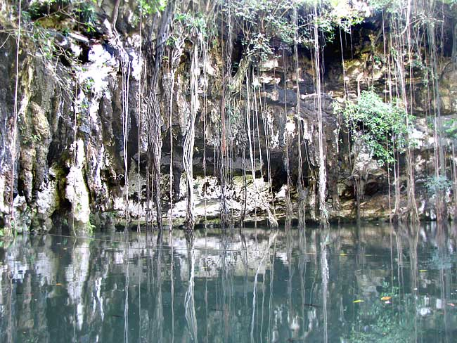 The wall of Yokdzonot's main cenote. “The dangling items are the rootlike stems, or stemlike roots of strangler fig trees growing at the rim.”